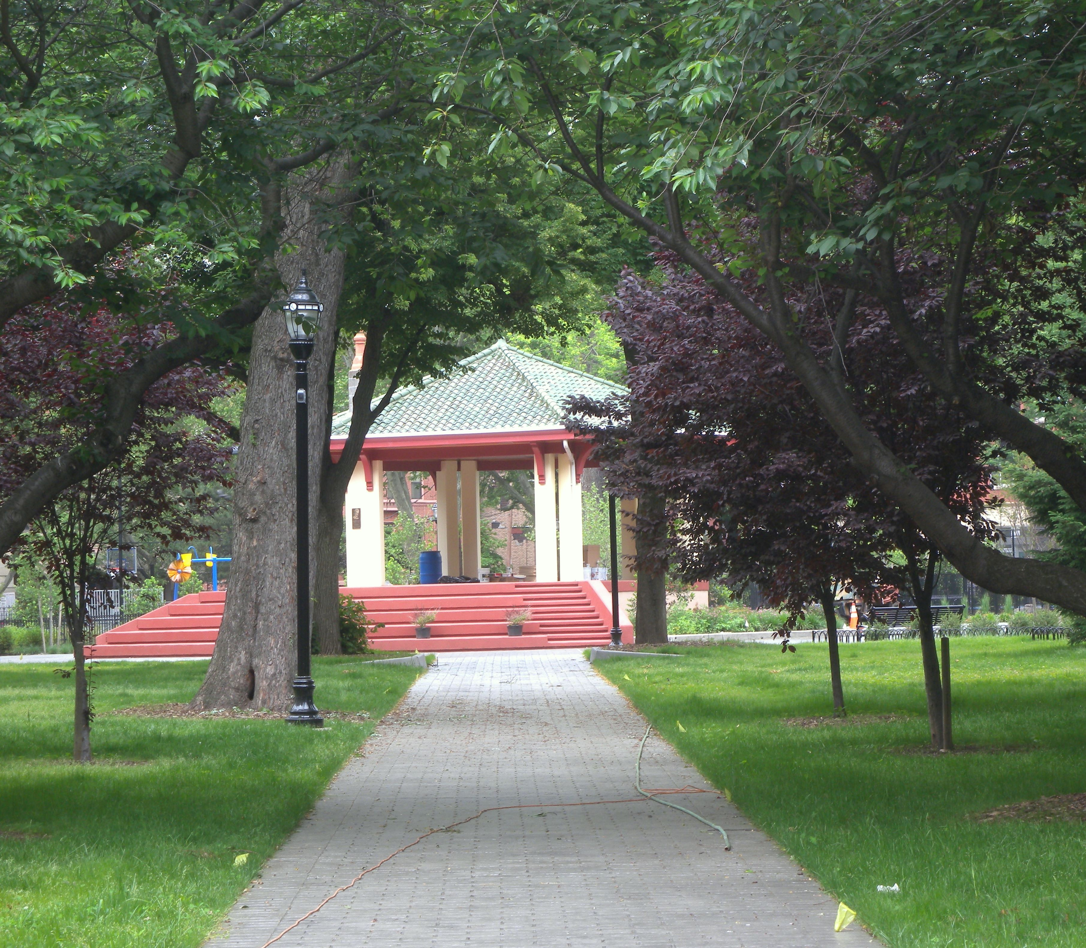 Looking northeast through a chain link fence, at gazebo in the middle of Hamilton Park, Jersey City on a cloudy afternoon. Located in Jersey City, and on the National Register of Historic Places in Hudson County, New Jersey.